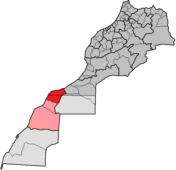 Location of the province Tarfaya within the region Laâyoune-Boujdour-Sakia El Hamra, Morocco. In total, Morocco has 16 regions, subdivided into 62 provinces and 13 prefectures.